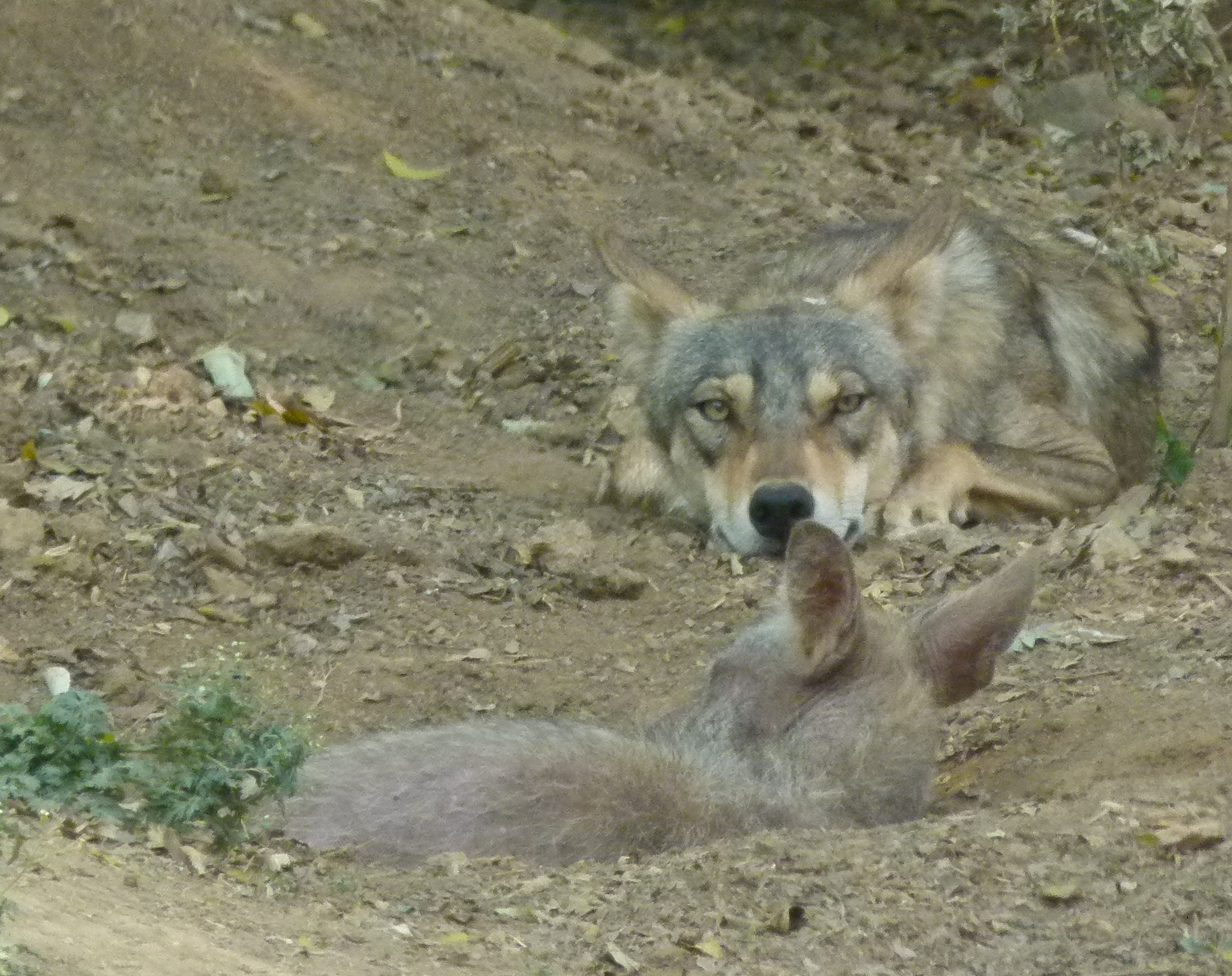 Indian Wolf, Mysore zoo